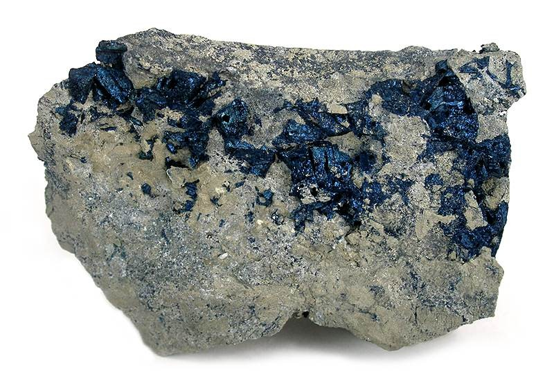 Anilite Locality: Tilva Mika deposit, Bor Mine, Bor, Bor-Majdanpek District, Serbia (Locality at ) Size: 5.6 x 2.8 x 2.4 cm. Extremely rare, this is a copper sulfide seldom found in such richness. It is absolutely outstanding for the species. These are 3-dimensional crystals, partially embedded in the matrix, showing an iridescent color range and demonstrating clear crystal form. Size is to 7-8 mm. Ex. Gunnar Farber Collection.